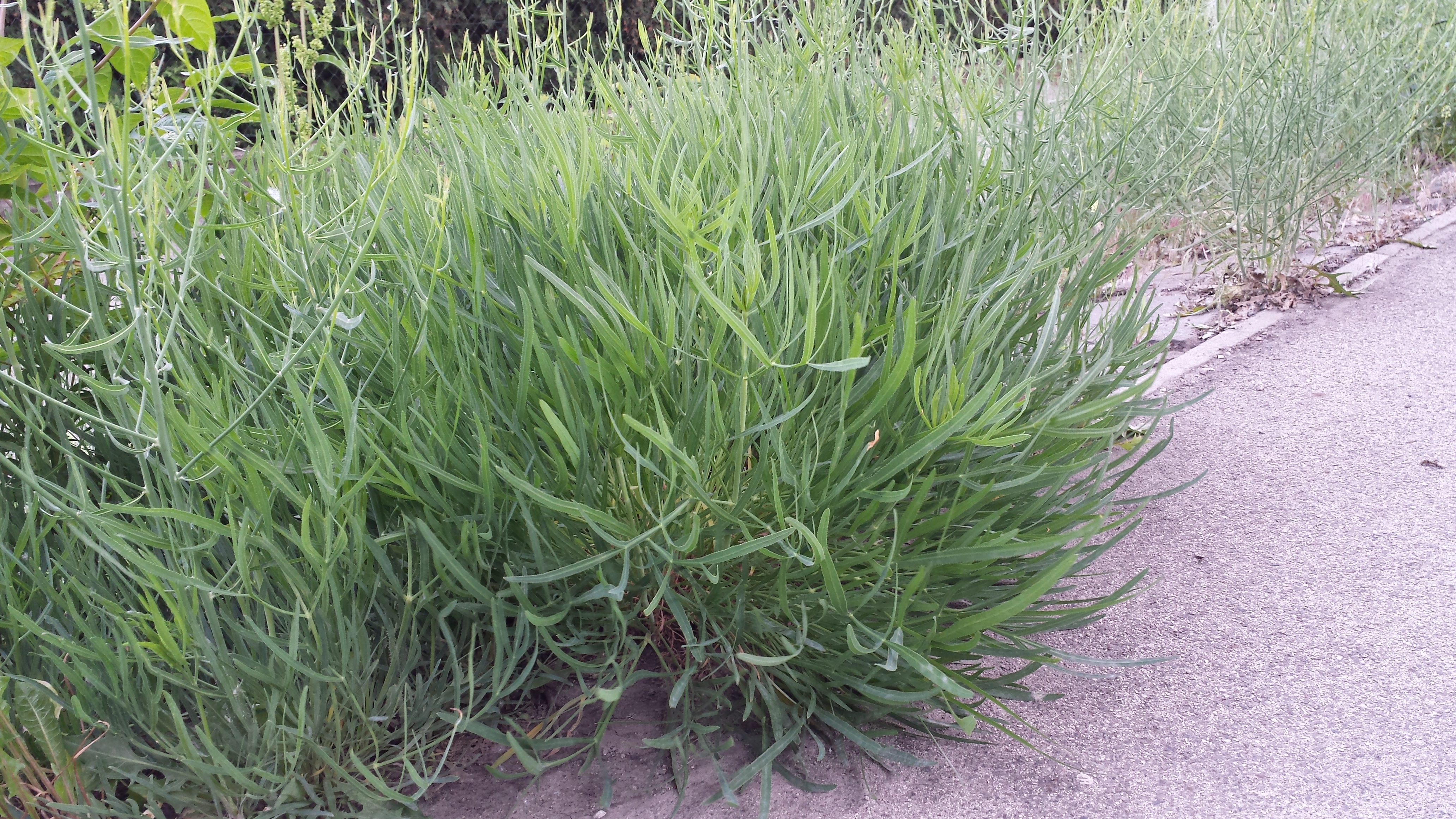 Taxon: Falcaria vulgaris (sensu Fischer et al. EfÖLS 2008) Location: Floridsdorf, Vienna - ca. 165 m a.s.l. Habitat: bouldering below rail bridge